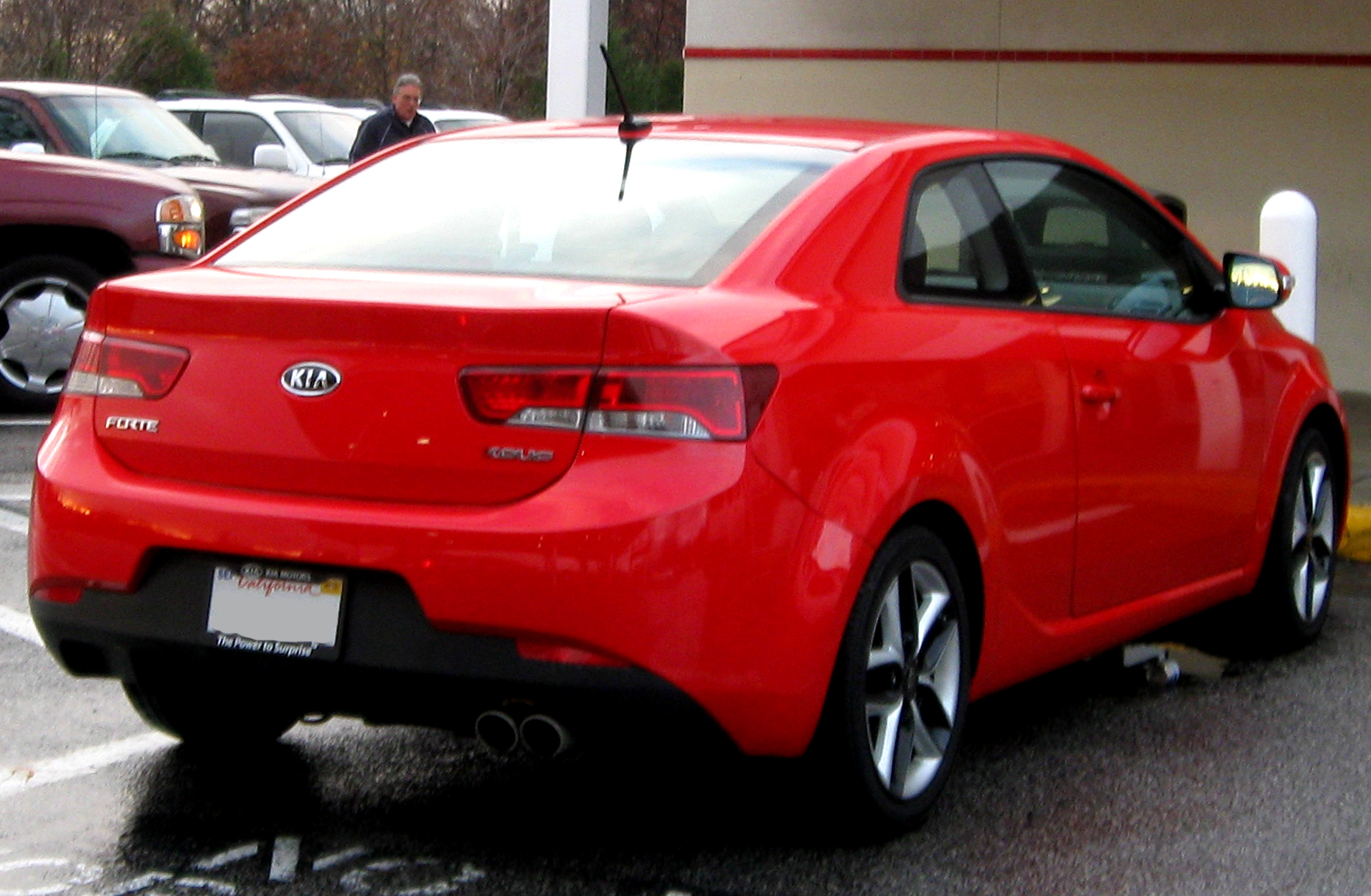 2010 Kia Forte Koup photographed in Upper Marlboro, Maryland, USA.